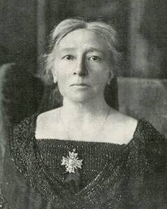 Portrait of August, Lady Gregory, ca. 1912/1913 (as per various other uses of same/similar image).